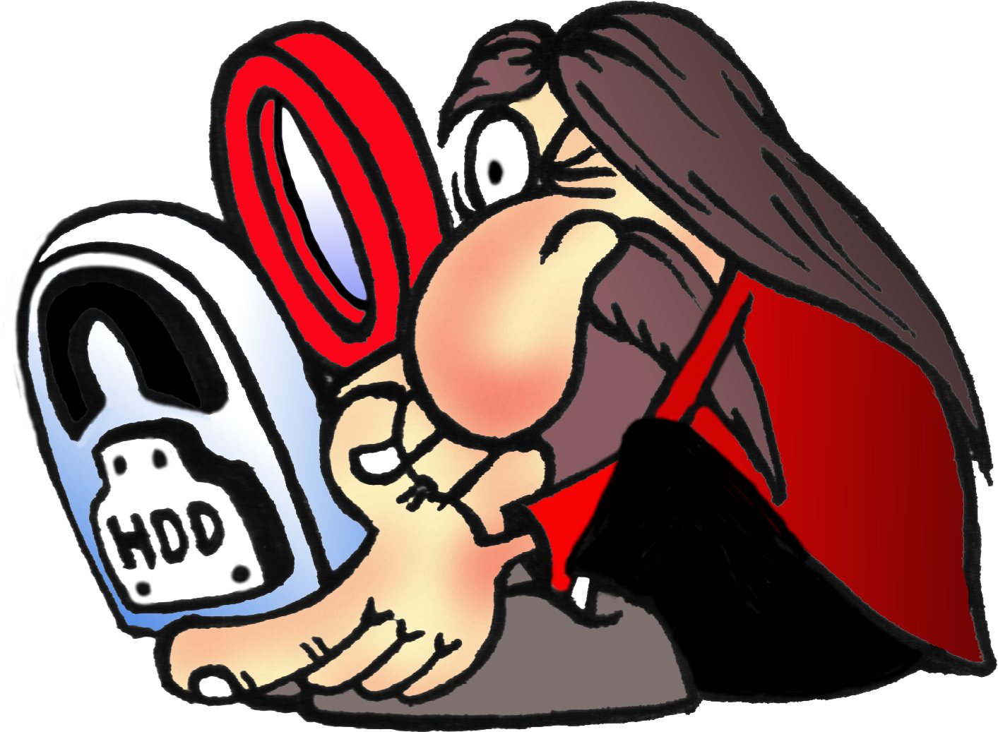 A larger version of the GNU GRUB logo (grub_logo.png), but without the text. The official GRUB website describes the smaller logo with text as "A GRUB logo by Karol Krenski."